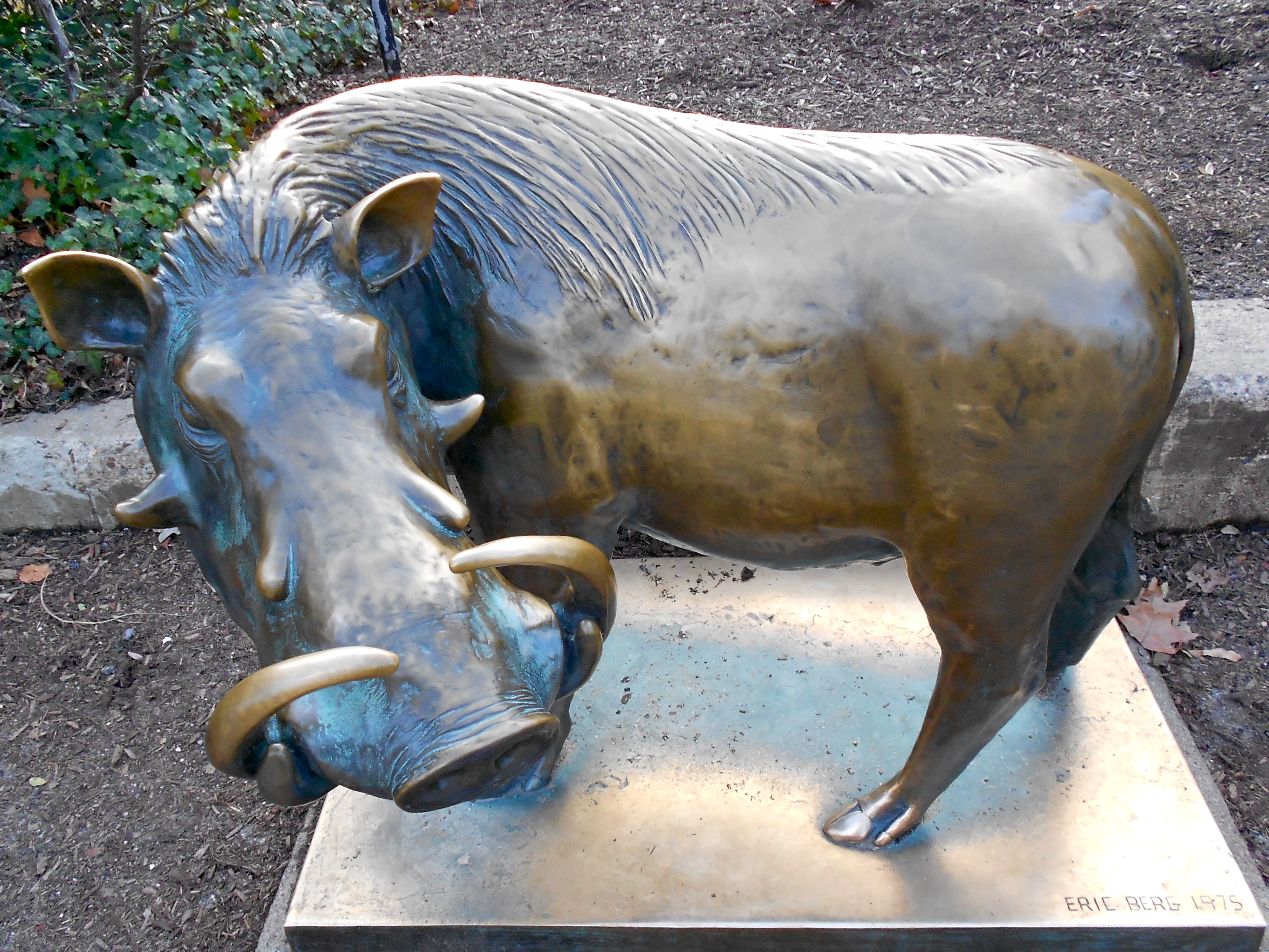 African Warthog, (sculpture). Artist: Berg, Eric, 1945- , sculptor. Title: African Warthog, (sculpture). Date: Cast 1975. Dedicated 1976. Medium: Sculpture: bronze. Owner: Philadelphia Zoological Garden, Philadelphia, Pennsylvania SIRIS Control_Number: 46200003No visible copyright notice.